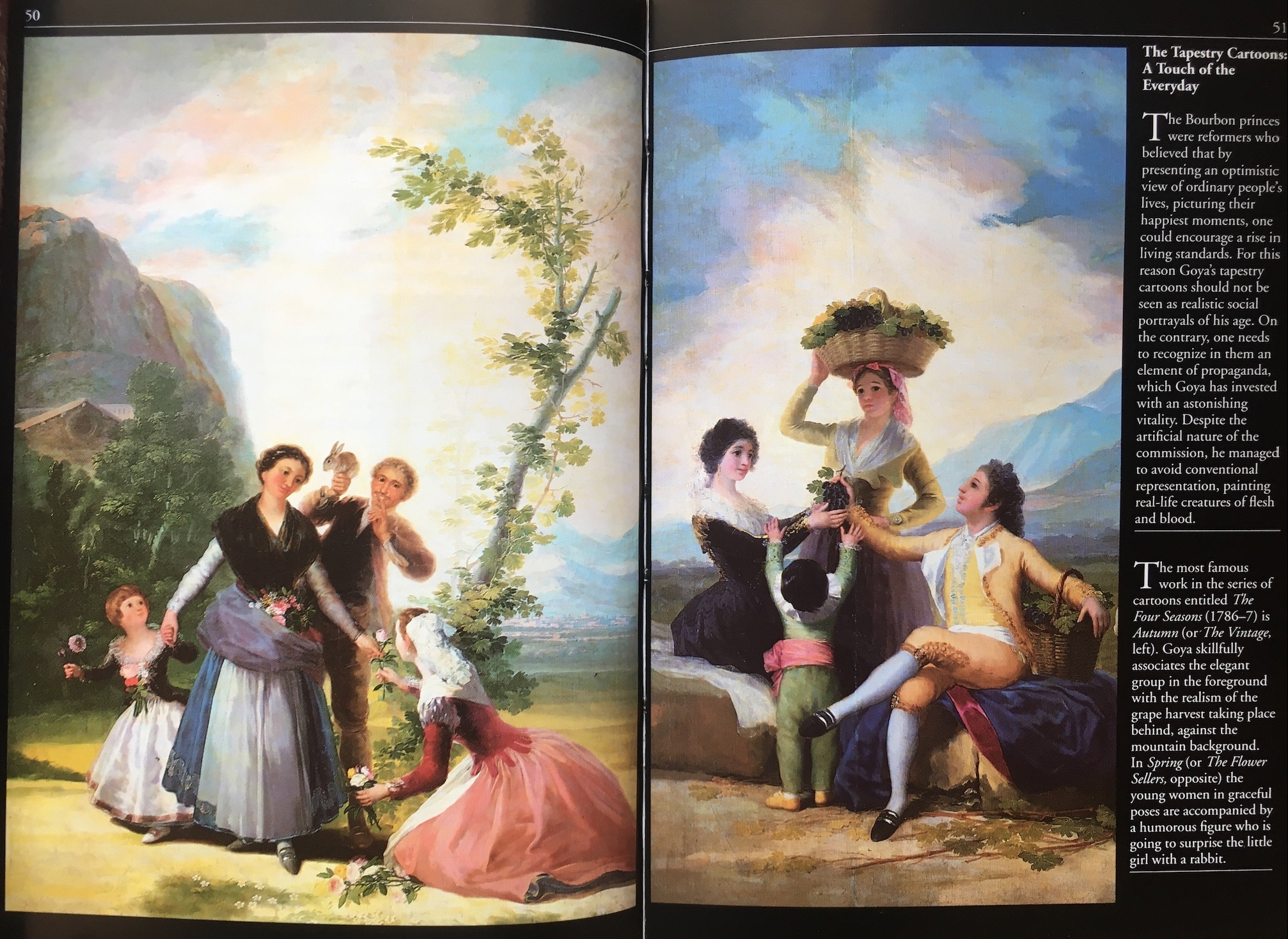 p. 50: Spring (or The Flower Sellers). Tapestry cartoon, 1786–7. Prado Museum, Madrid; p. 51: Autumn (or The Vintage). Tapestry cartoon, 1786–7. Prado Museum, Madrid. — Jeannine Baticle, Goya: Painter of Terrible Splendor, “Abrams Discoveries” series. New York: Harry N. Abrams, 1994. Translated from the French by Alexandra Campbell; short description on page 171.